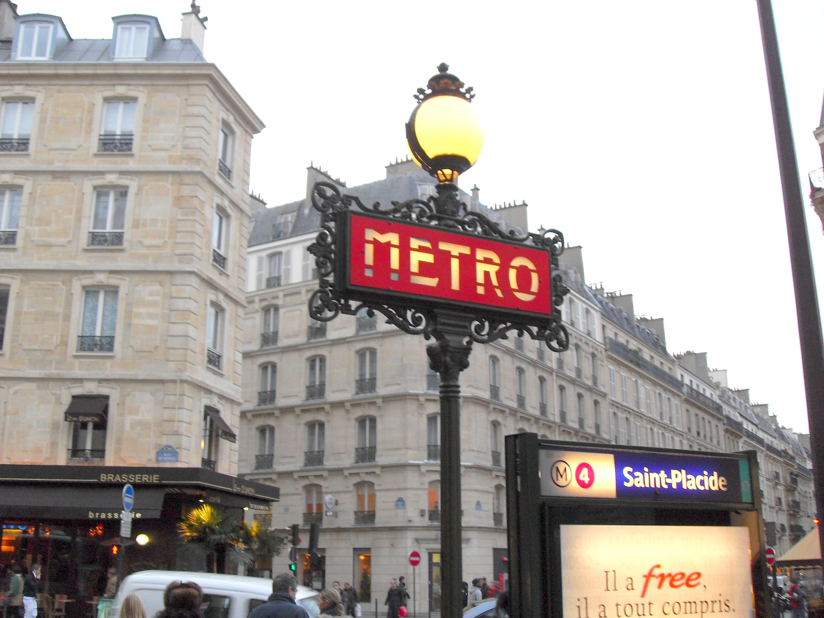 Paris Station de métro Saint-Placide (ligne 4)